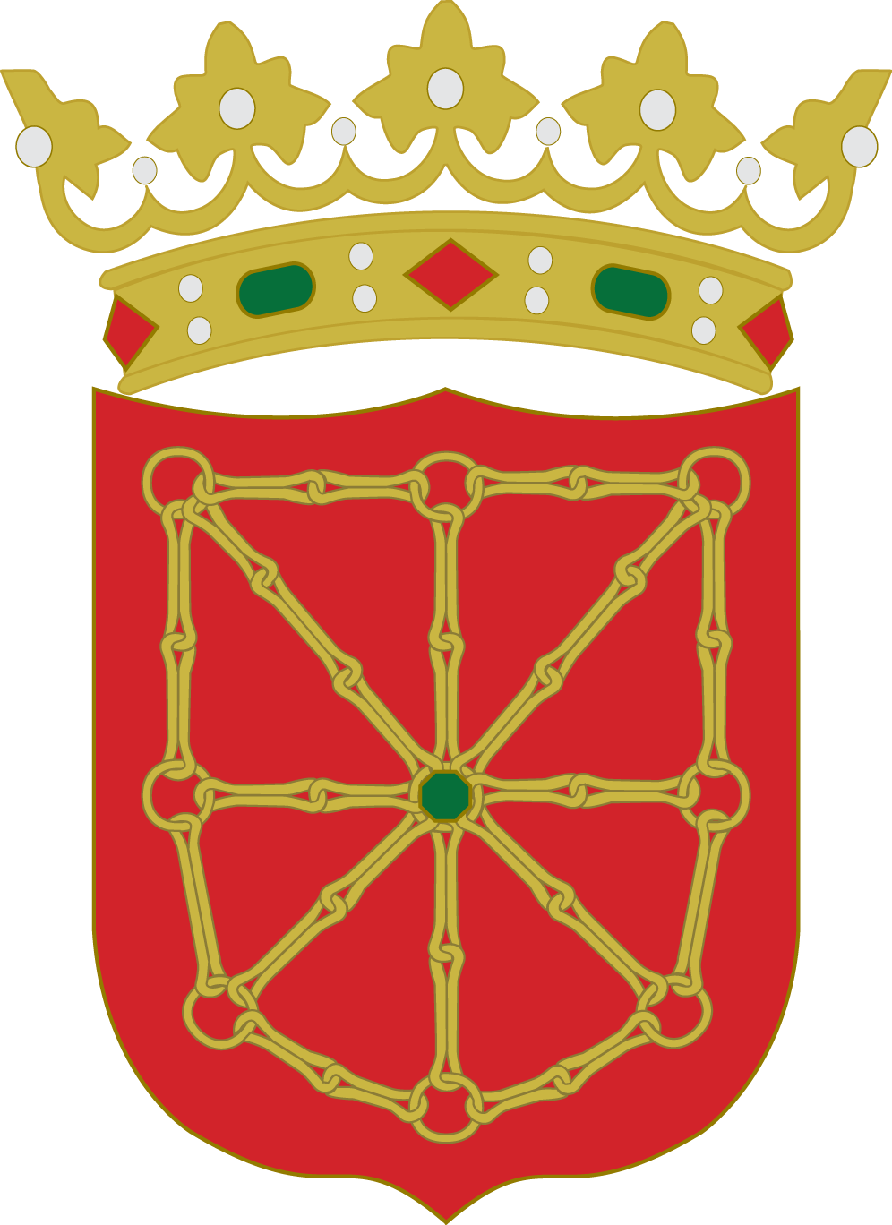 Coat of arms of the Kingdom of Navarre